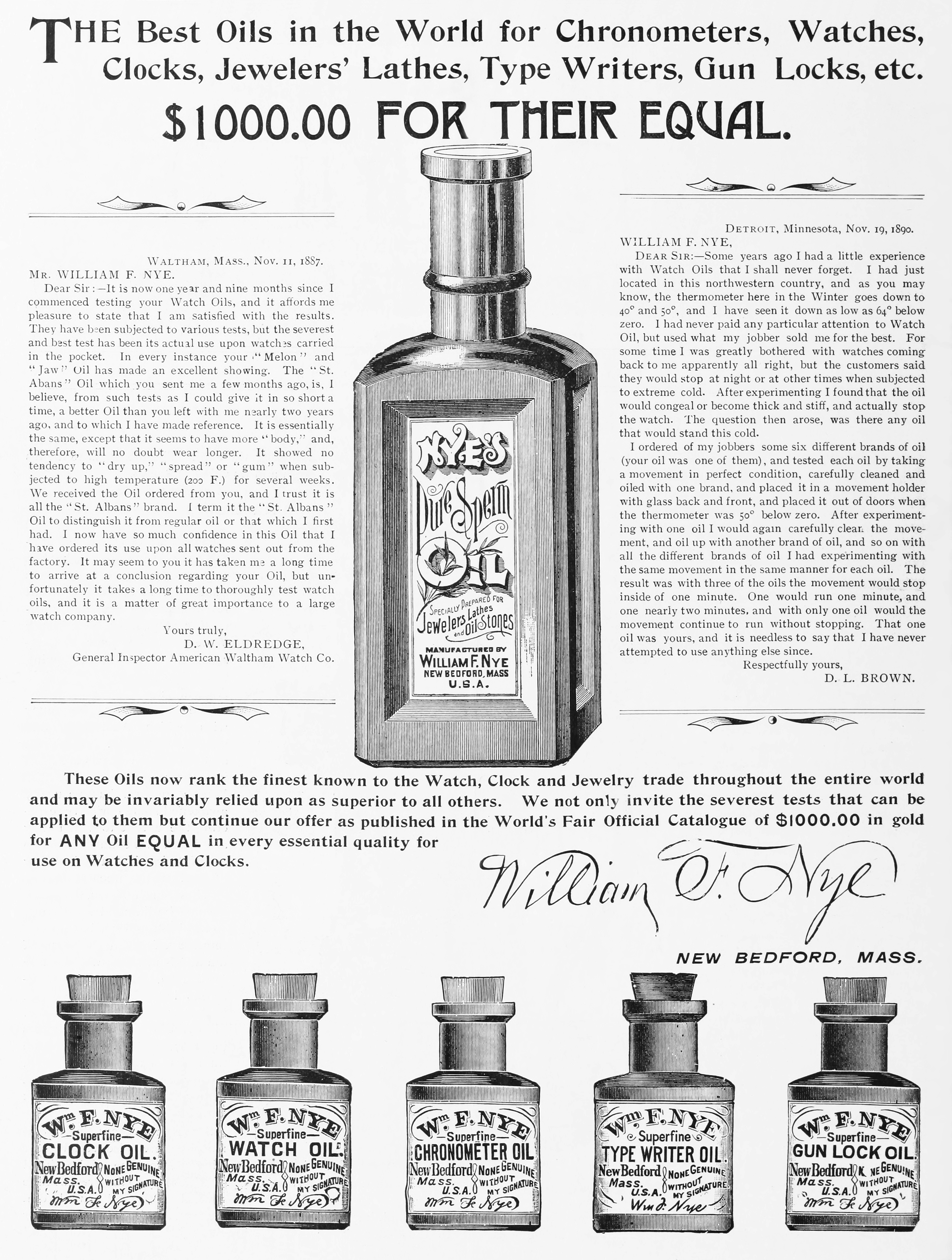 Advertisement for the Nye Oil Company, founded by William Foster Nye.